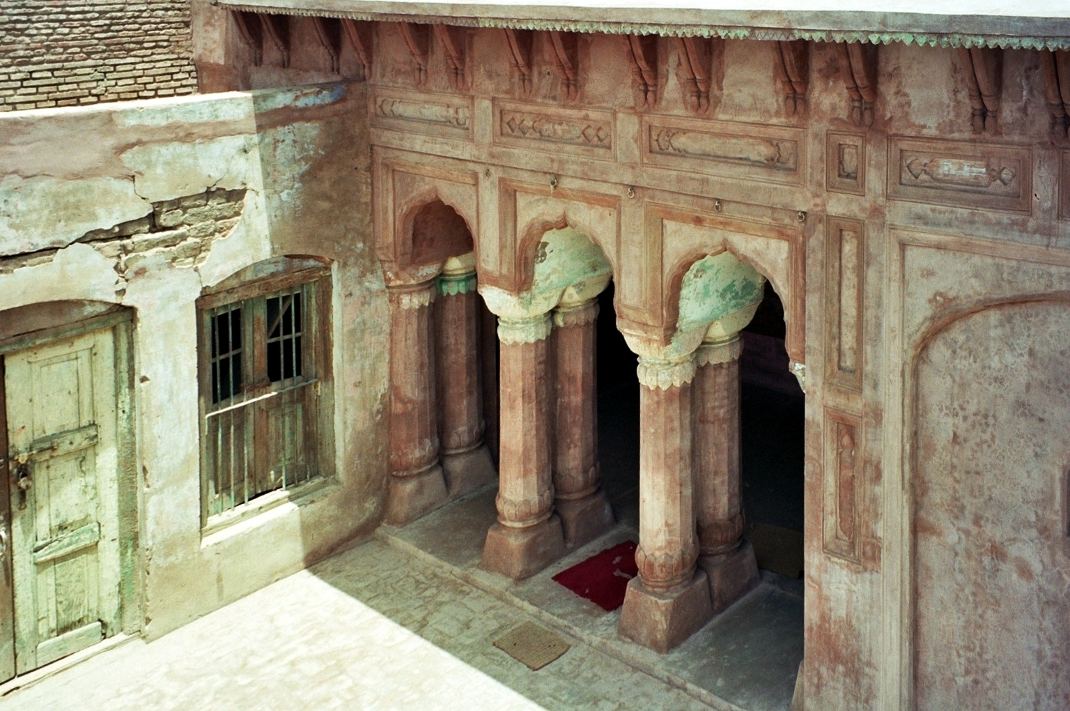 A view from the terrace of one of the verandas at Bathinda Fort